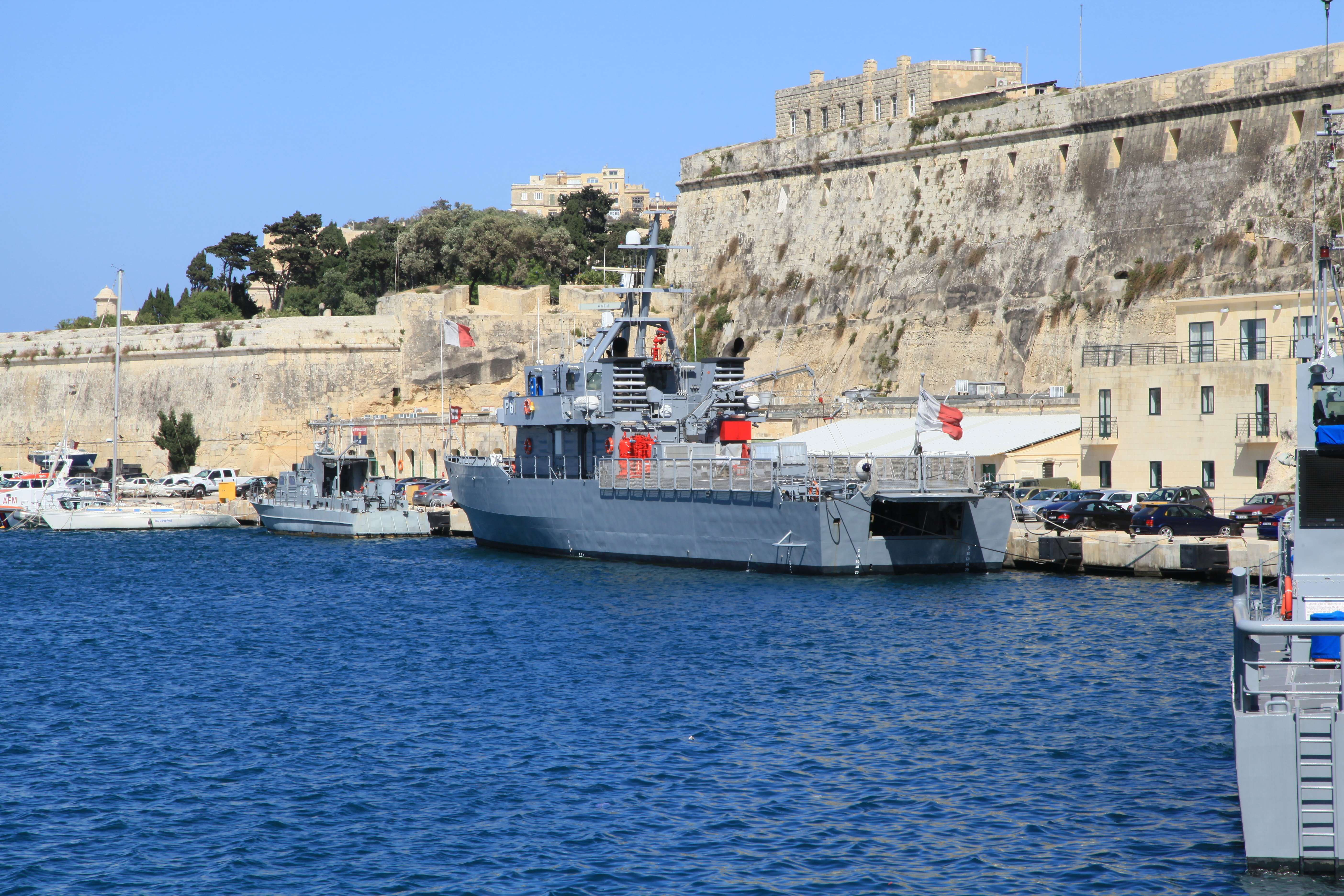 Xatt it-Tiben in Floriana, Malta